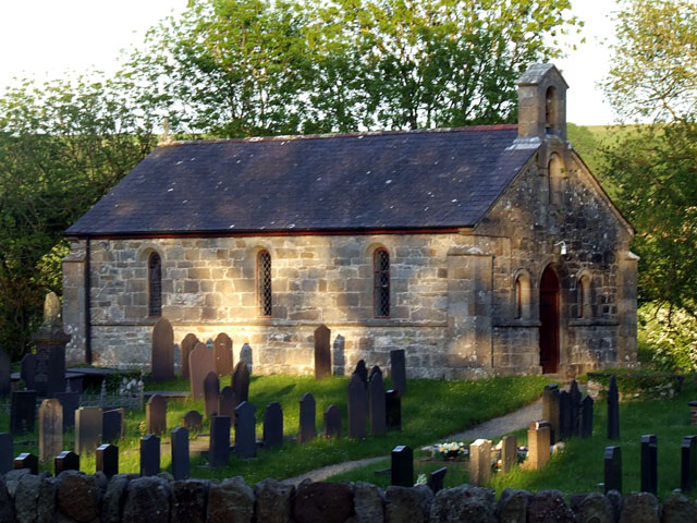 Llanffinan Church. The small church of Llanffinan near to Ceint